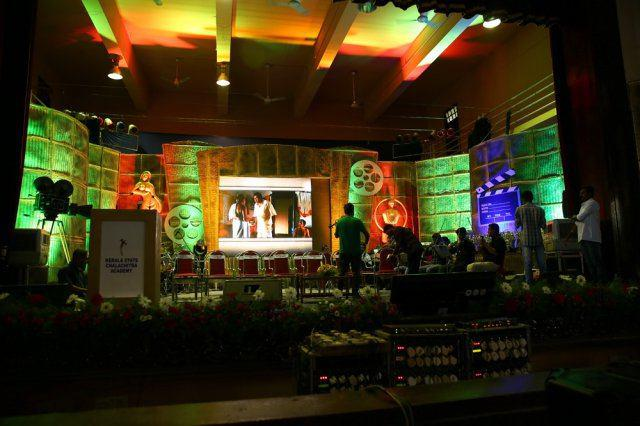 Kalyachan on screen in the event